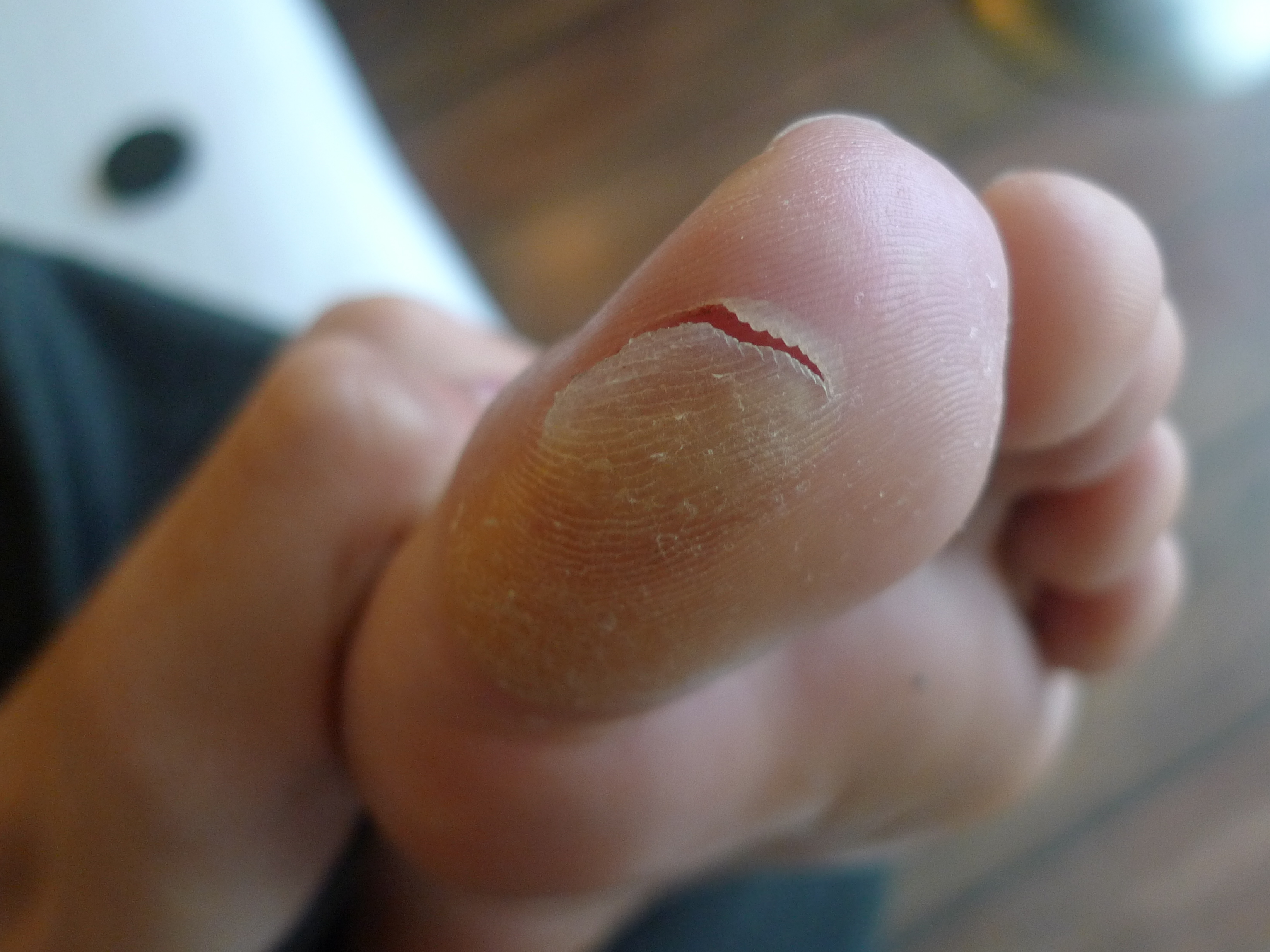 Cracked Blister on the toe.